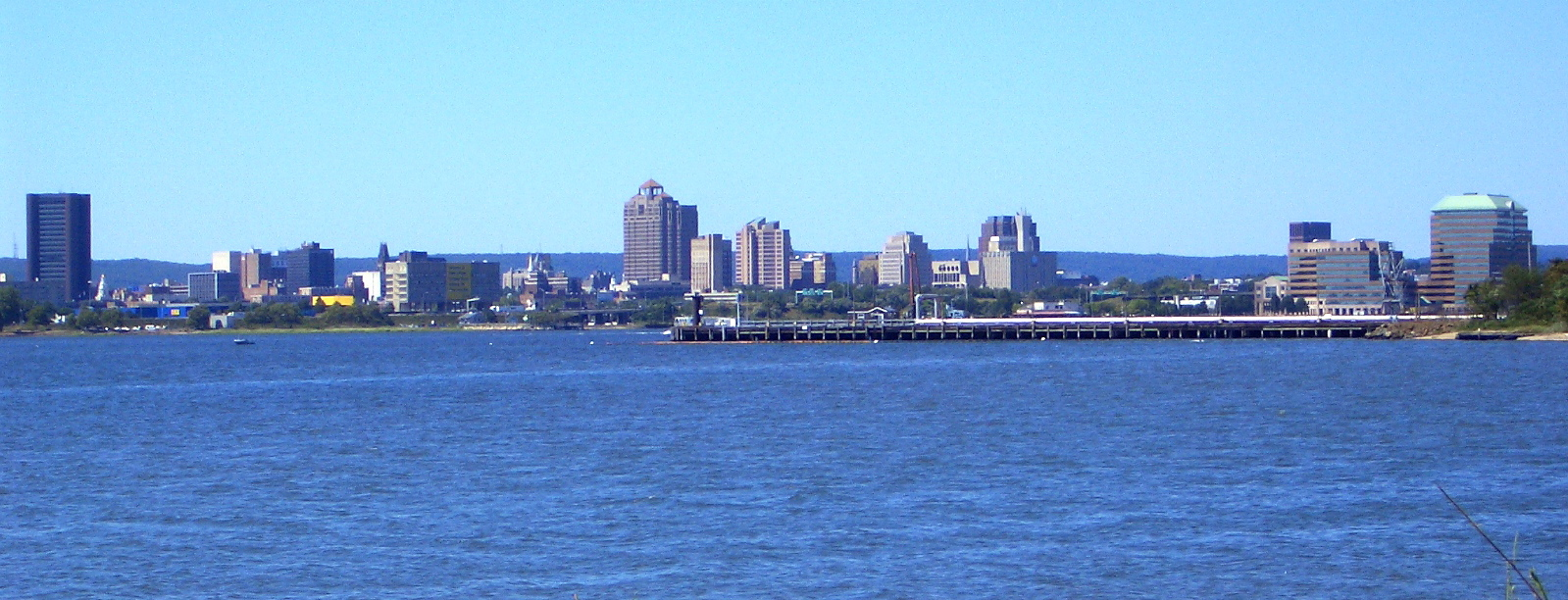 New Haven,CT Skyline from East Shore Park